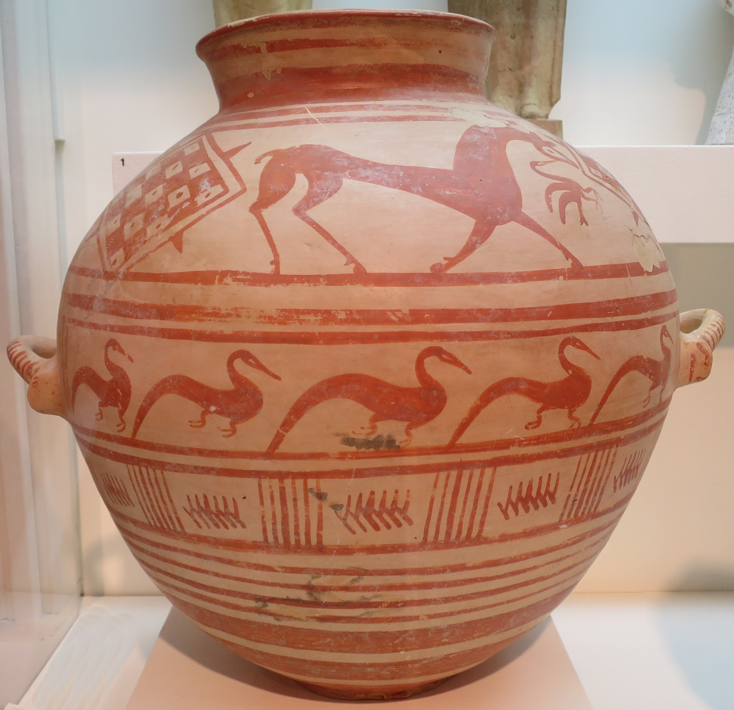 Heron Class Olla (food storage jar), Etruscan culture, c. 700-675 BCE, Lowe Art Museum